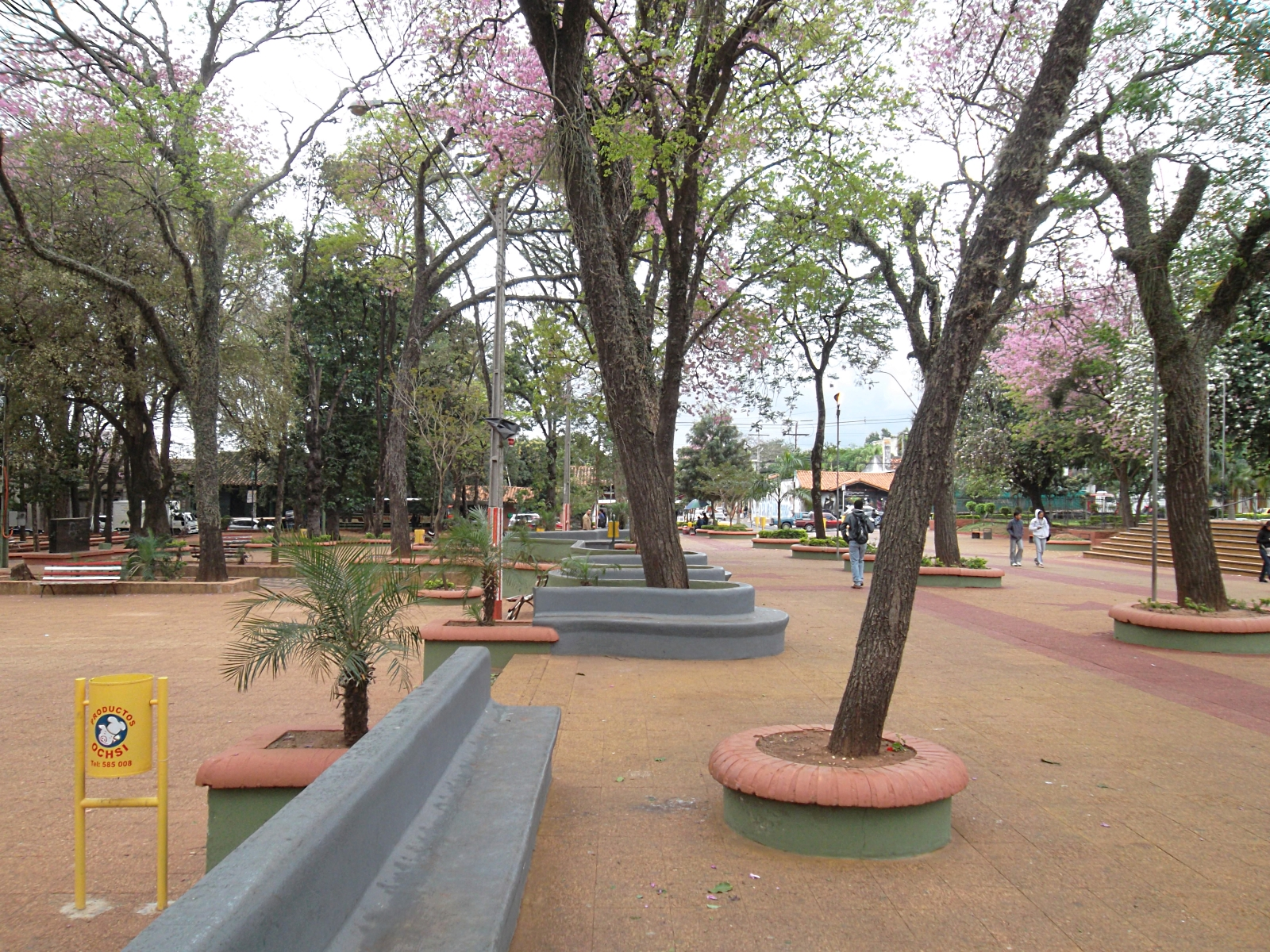 Cerro Cora square and San Lorenzo street pedestrian zones